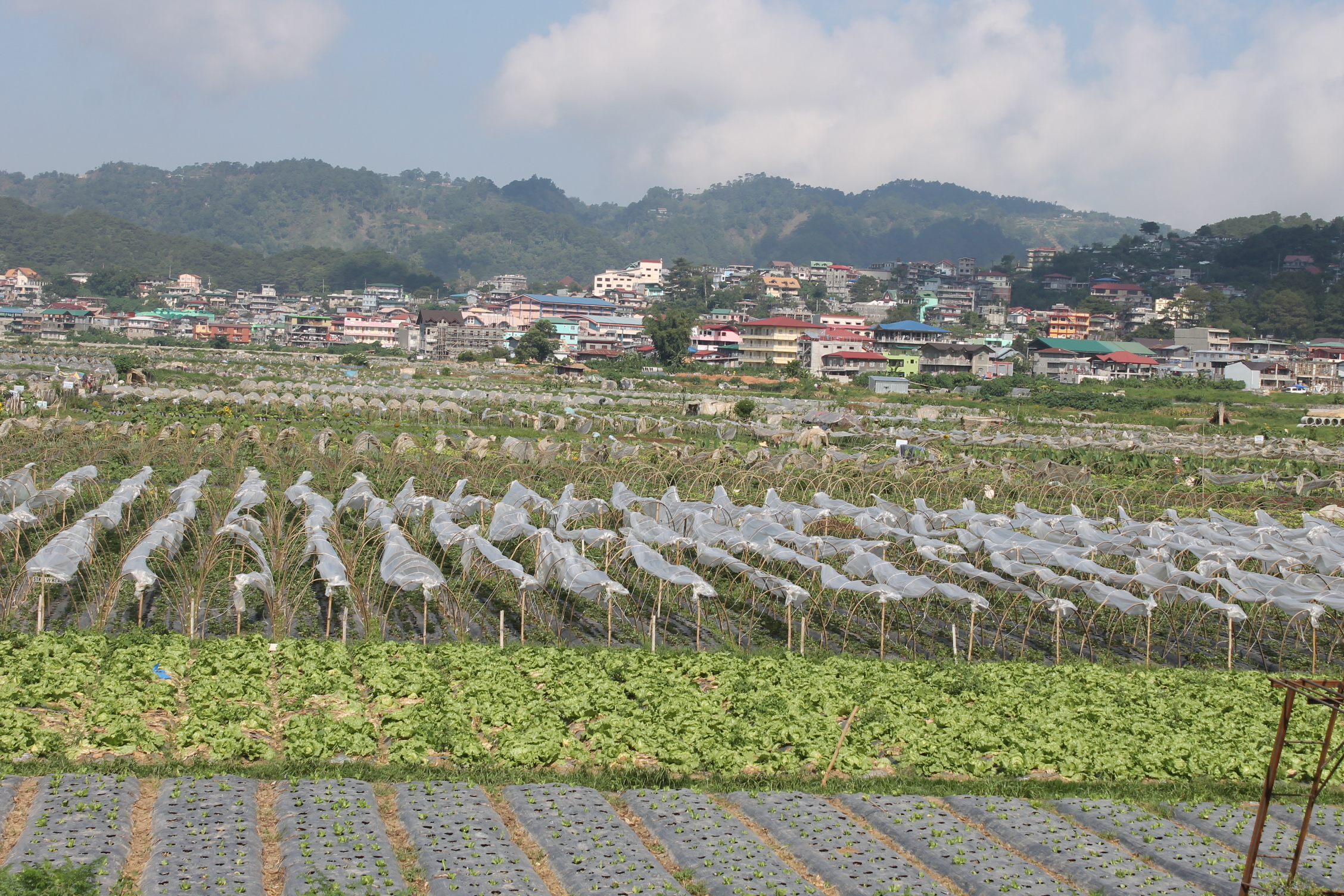 La Trinidad strawberry fields